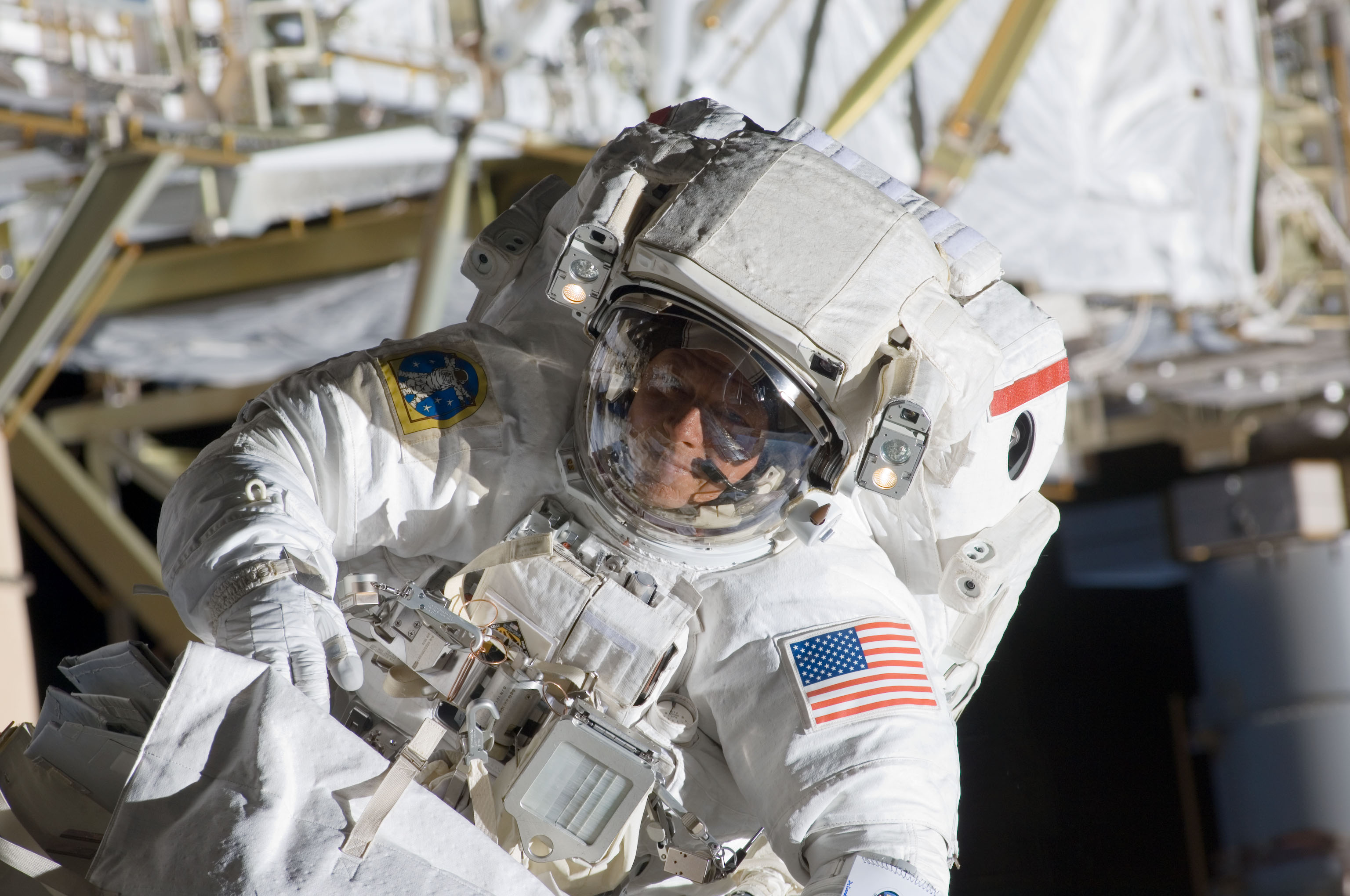 Astronaut Mike Fossum, STS-124 mission specialist, participates in the mission's second scheduled session of extravehicular activity (EVA) as construction and maintenance continue on the International Space Station. During the seven-hour, 11-minute spacewalk, Fossum and astronaut Ron Garan (out of frame), mission specialist, installed television cameras on the front and rear of the Kibo Japanese Pressurized Module (JPM) to assist Kibo robotic arm operations, removed thermal covers from the Kibo robotic arm, prepared an upper JPM docking port for flight day seven's attachment of the Kibo logistics module, readied a spare nitrogen tank assembly for its installation during the third spacewalk, retrieved a failed television camera from the Port 1 truss, and inspected the port Solar Alpha Rotary Joint (SARJ).